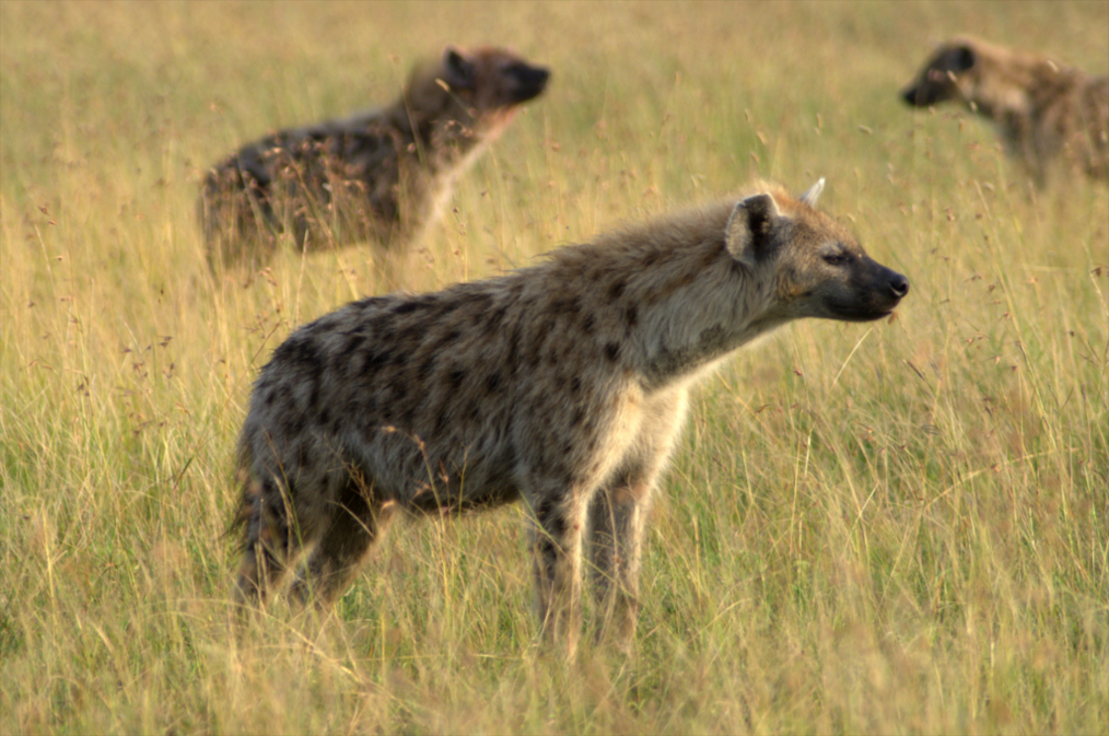 Spotted hyenas, Masai Mara, Kenya